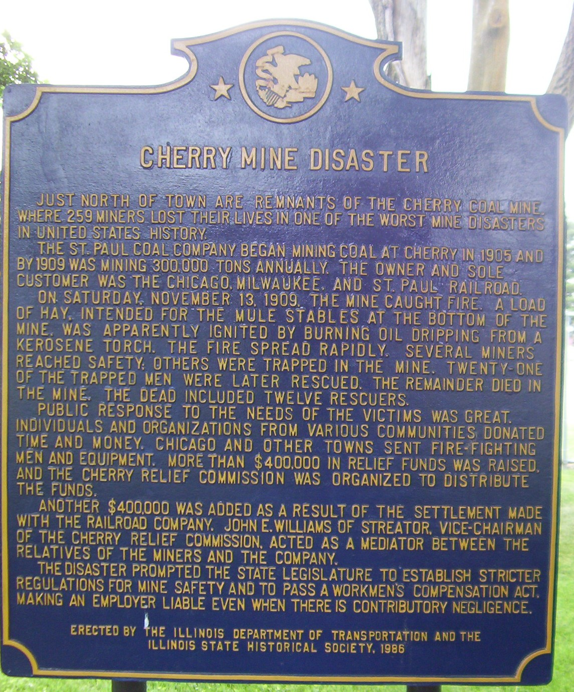 Photo taken by myself, Jeremy Oehlert, on 14 JUN 2007 while visiting the site of the Cherry Mine Disaster in Cherry, IL, USA.